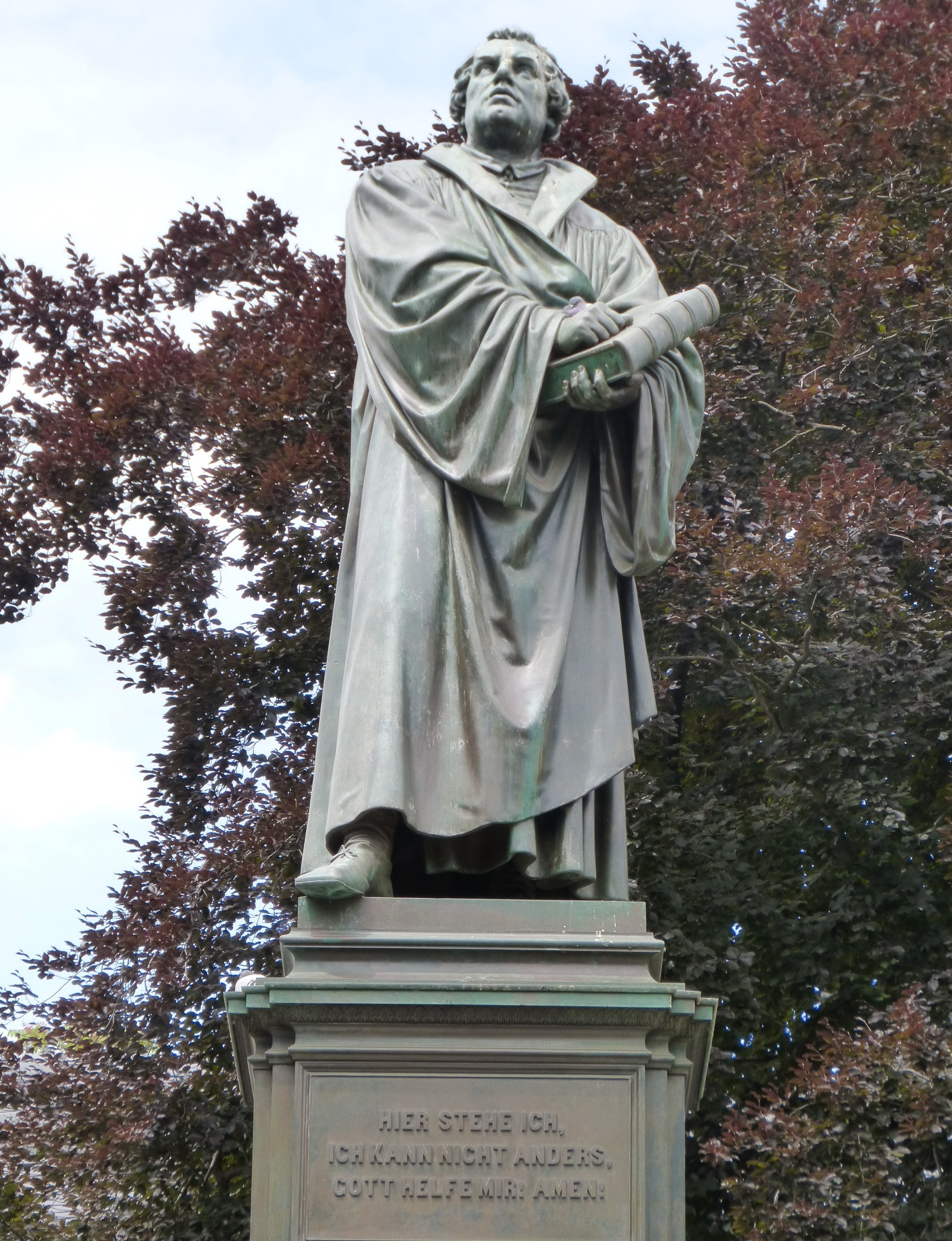 Luther statue, Martin-Luther-Denkmal, Worms